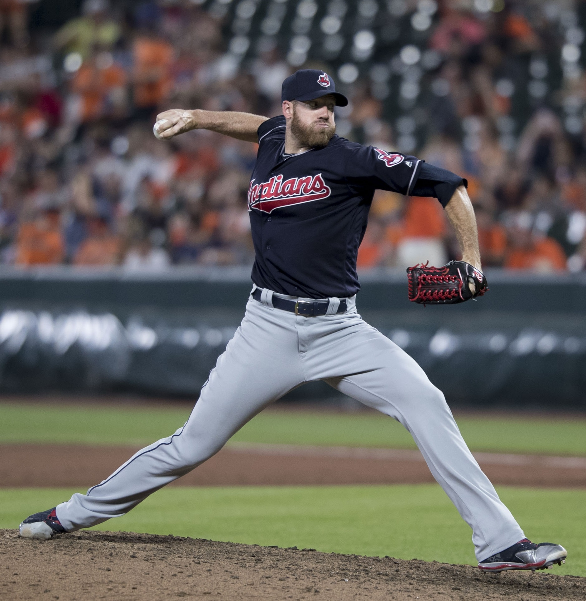 Indians at Orioles 6/22/17